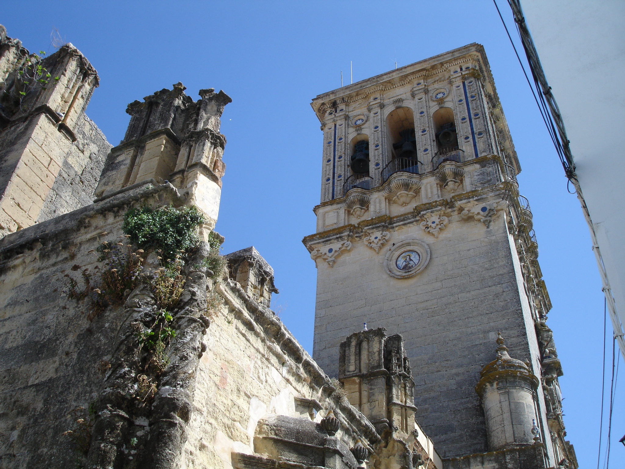 Tower of a Church of "Santa María de la Asunción" in Arcos de la Frontera, Andalusia (Spain)